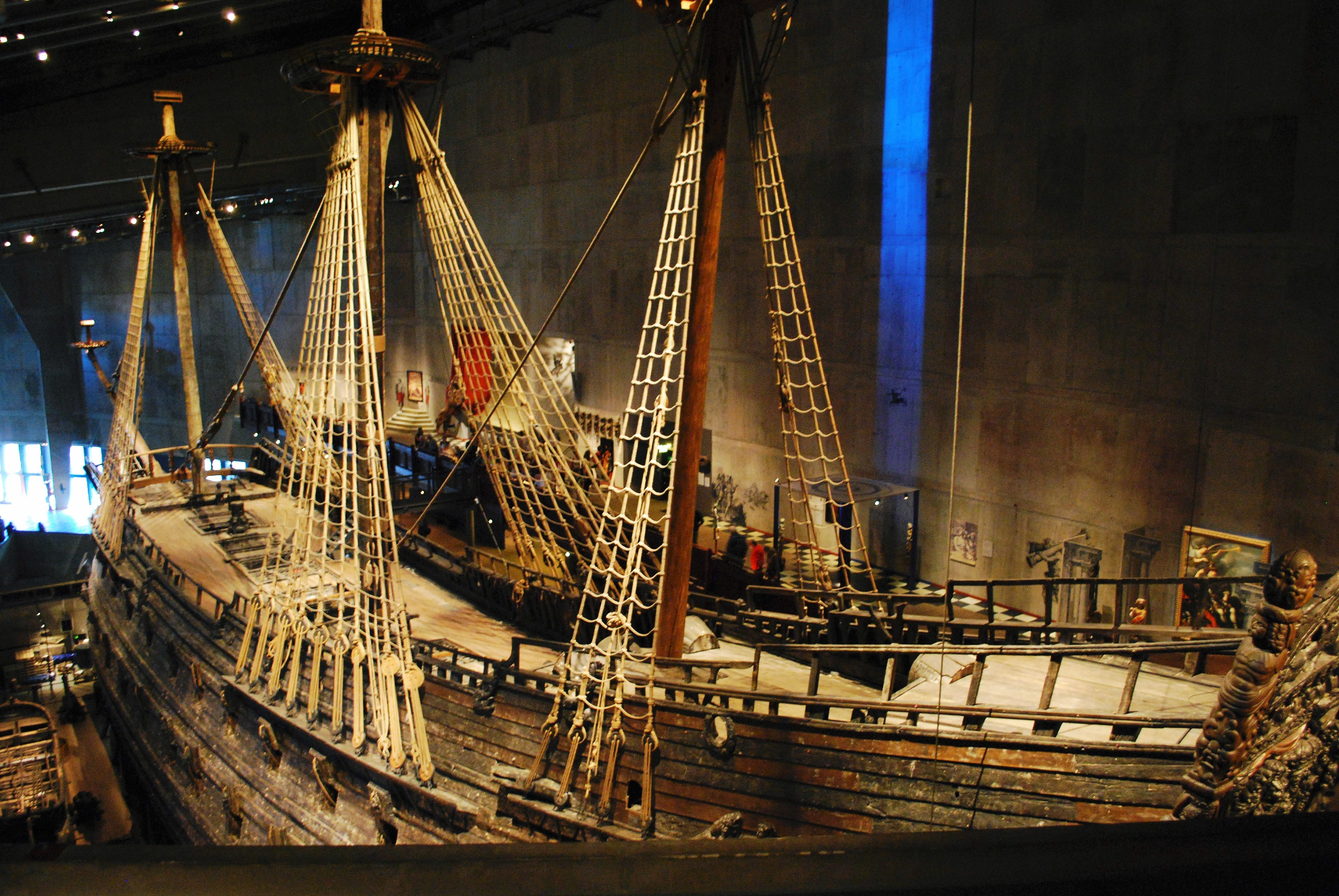 View of the Vasa from the stern looking for'ard. At the Vasa Museum 6/10.